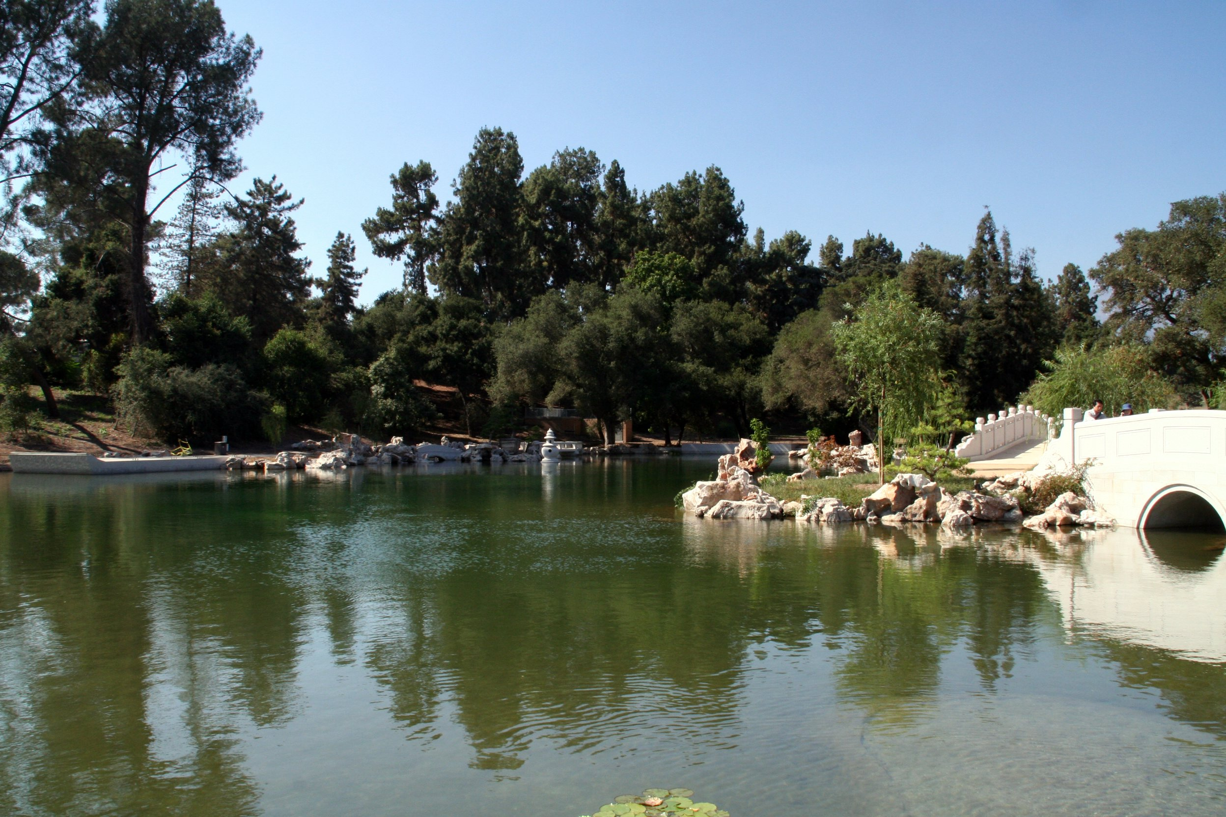 Chinese Garden Liu Fang Yuan 流芳園 (the Garden of Flowing Fragrance).